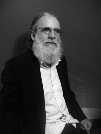 Rafael Almanza Cuban writer